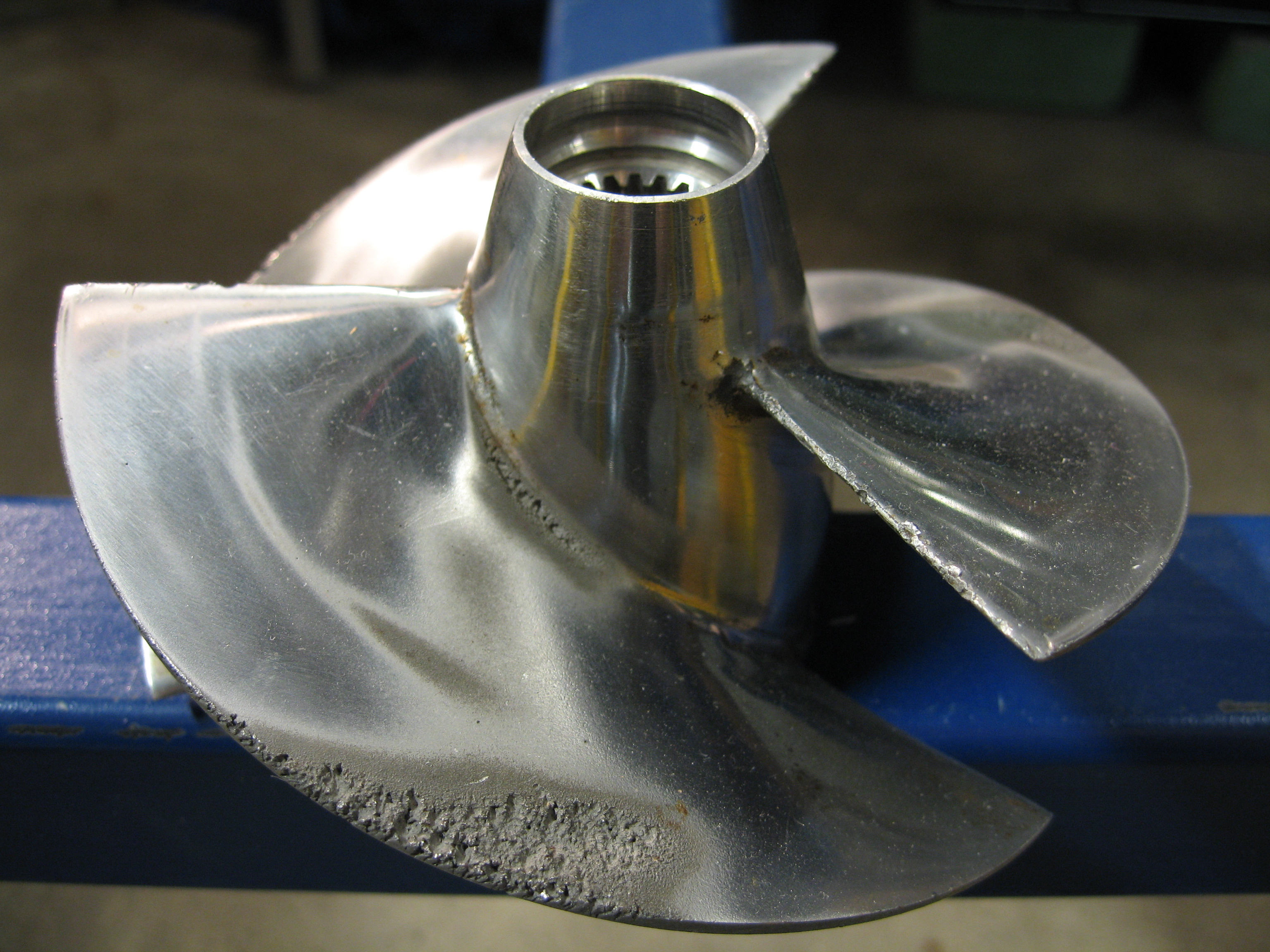 Cavitation damage evident on the propeller of a personal watercraft. Note the concentrated damage on the outer edge of the propeller where the speed of the blade is fastest.